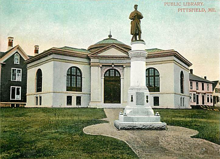 Public Library, Pittsfield, Maine. A Carnegie library designed by Albert Randolph Ross, it was built in 1903-1904.